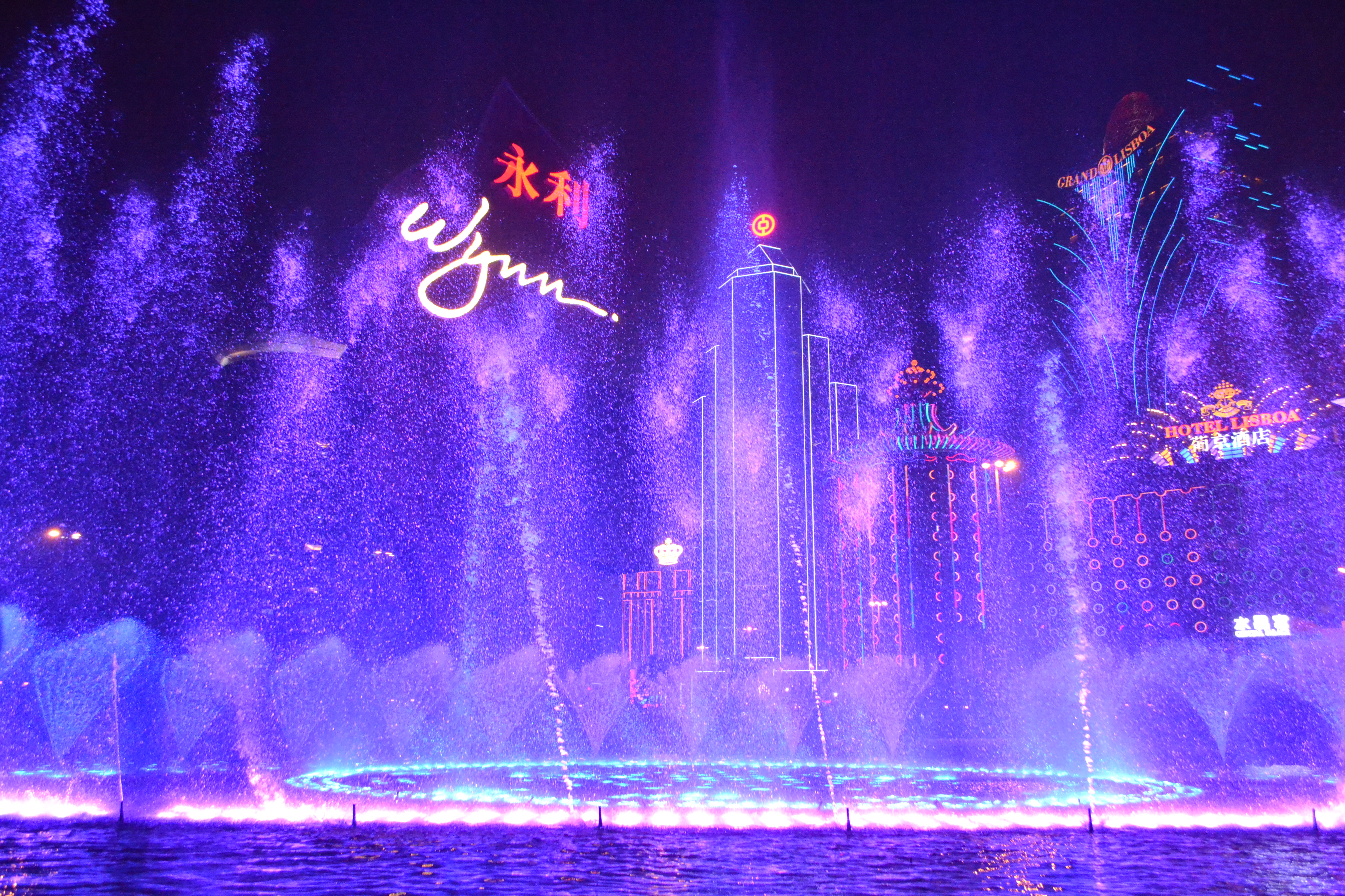 Water/lightshow at the Wynn